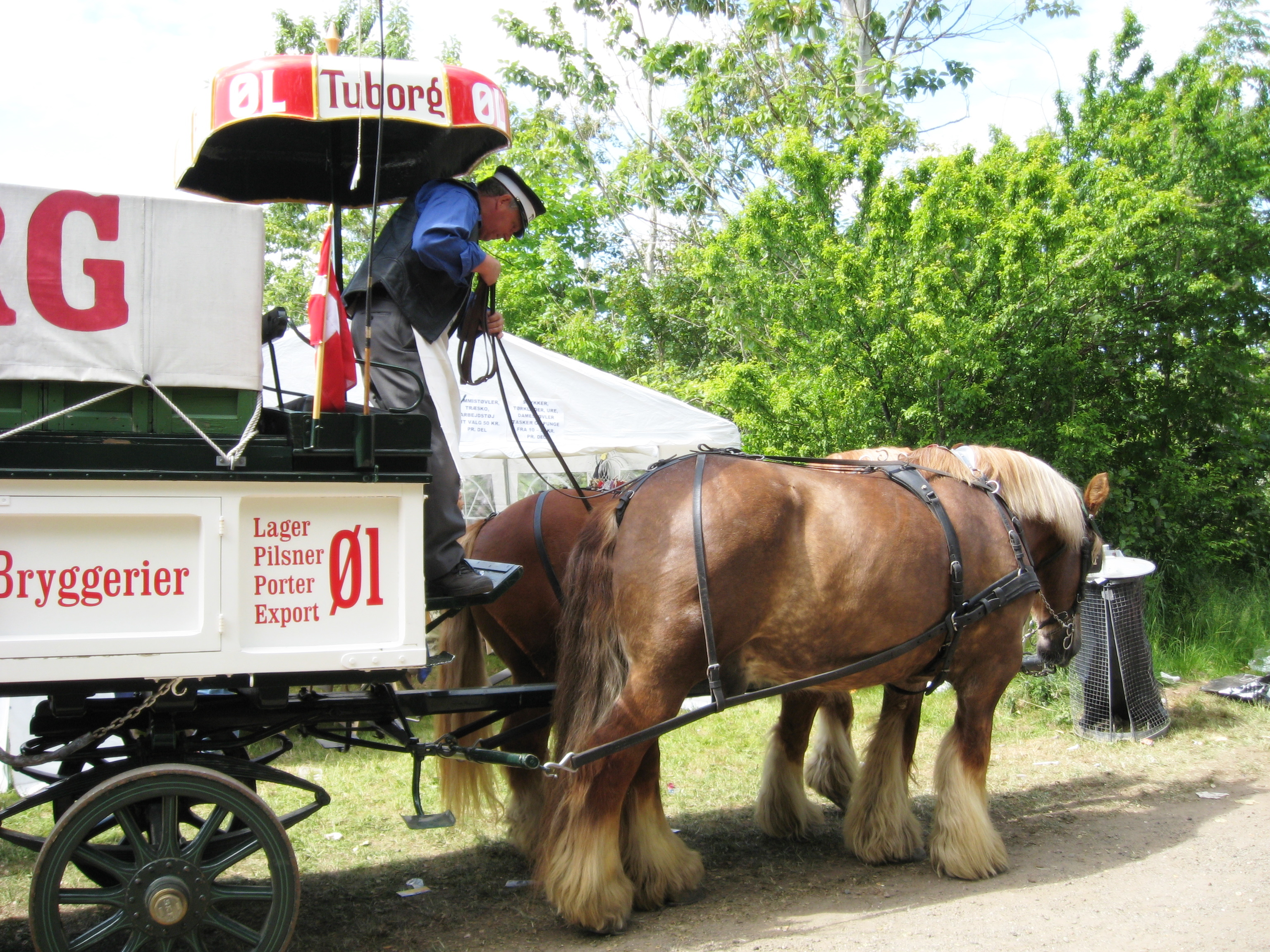 Tuborg Cart. Picture taken at the annual Hjallerup Market